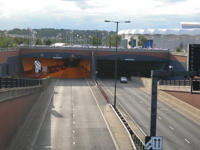 Medway Tunnel - Chatham Side The Medway Tunnel was built in the mid 1990s. Just above the tunnel entrance is a car park for the Dockside Outlet Centre and some of the nearby attractions. The white tent-like building to the right is part of the Dockside Outlet Centre.